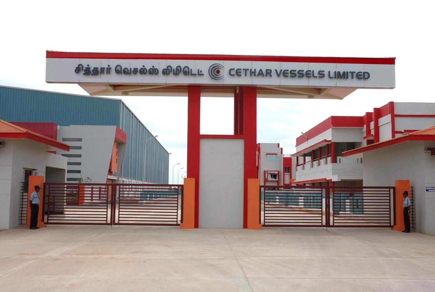 Unit-7 located on the Trichy-Madurai NH